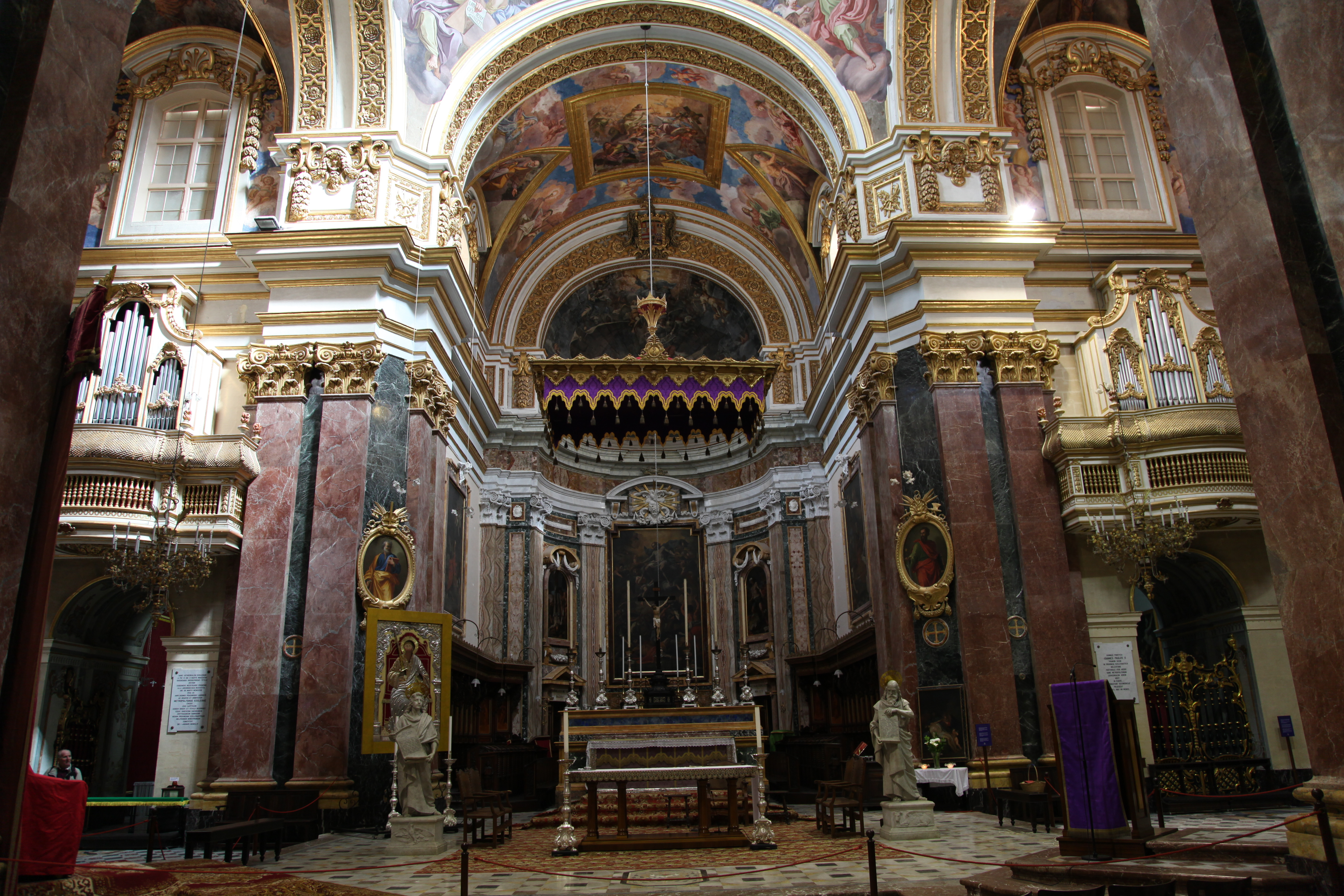 St. Paul's Cathedral, Pjazza San Pawl in Mdina, Malta